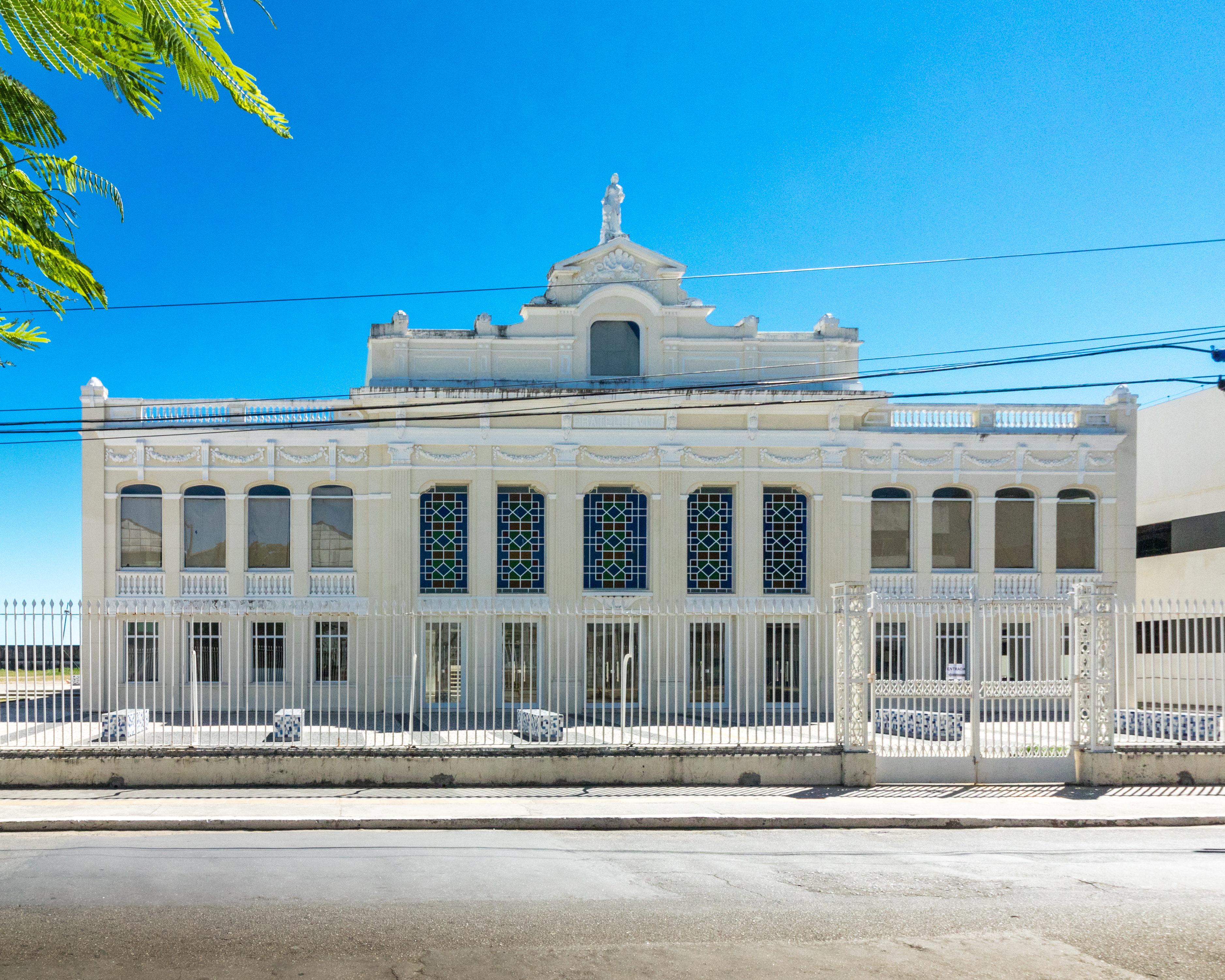 Fratelli Factory (1920-1972), Rua Barão de Cotegipe, Calçada, Salvador, Bahia, Brazil. Now a campus of Estácio FIB called Fratelli Vita. Heritage site of the State of Bahia, no. 002/2000.